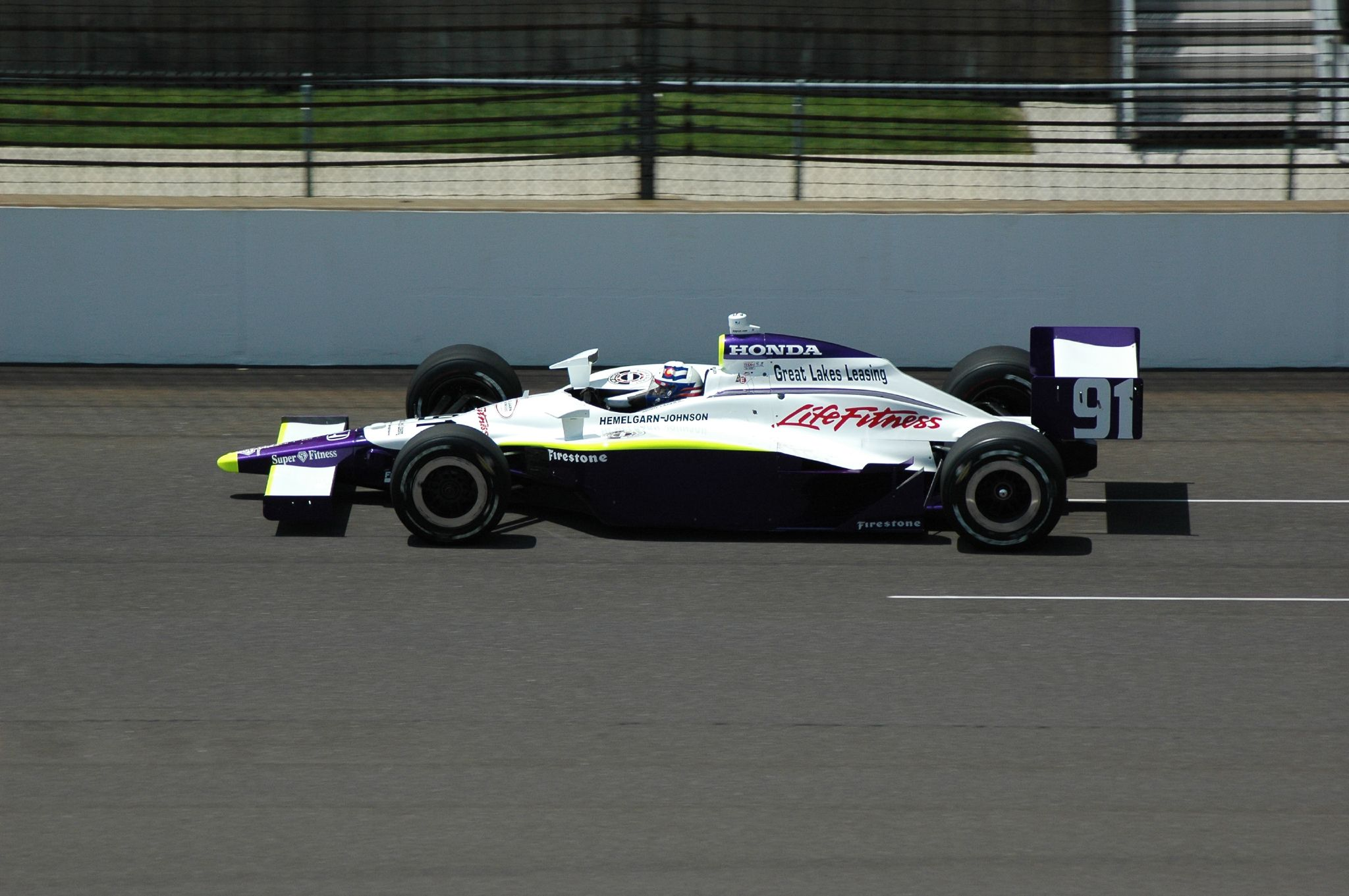 Buddy Lazier at Indianapolis 500 practice.